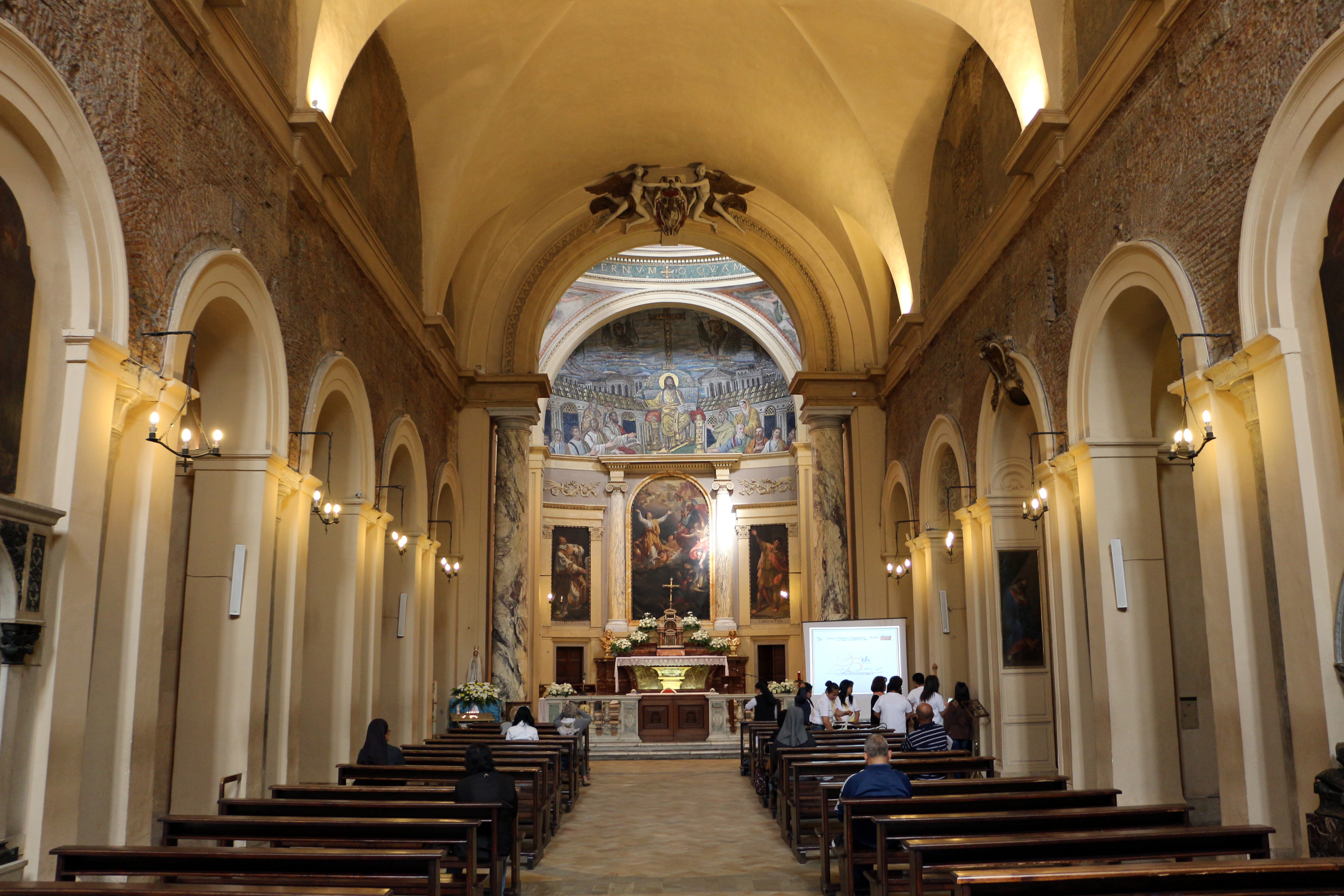 Santa Pudenziana (Rome)